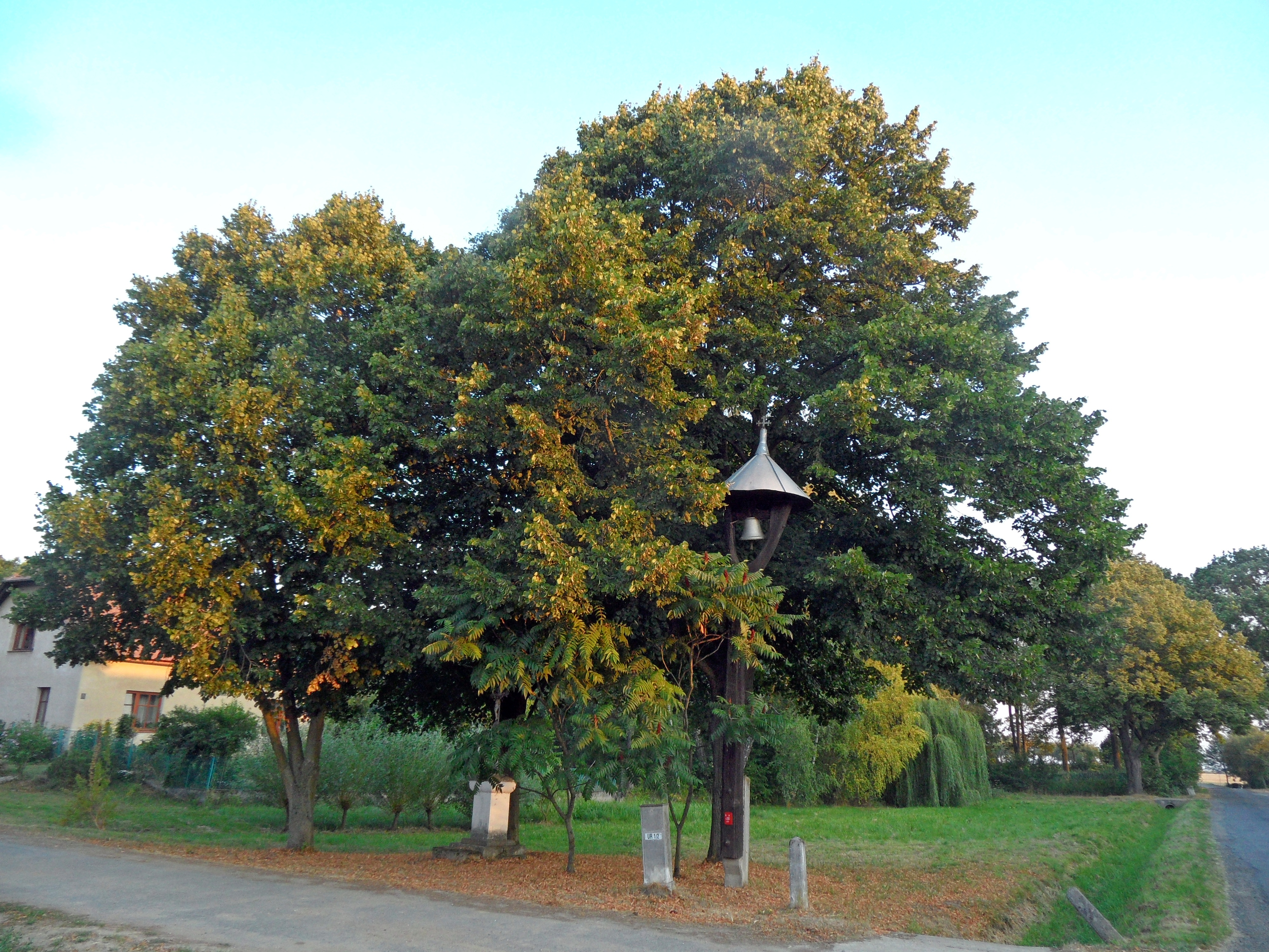 Ždánice (Vilémov) E. Tower Bell and Crucifix. Havlíčkův Brod District, the Czech Republic.